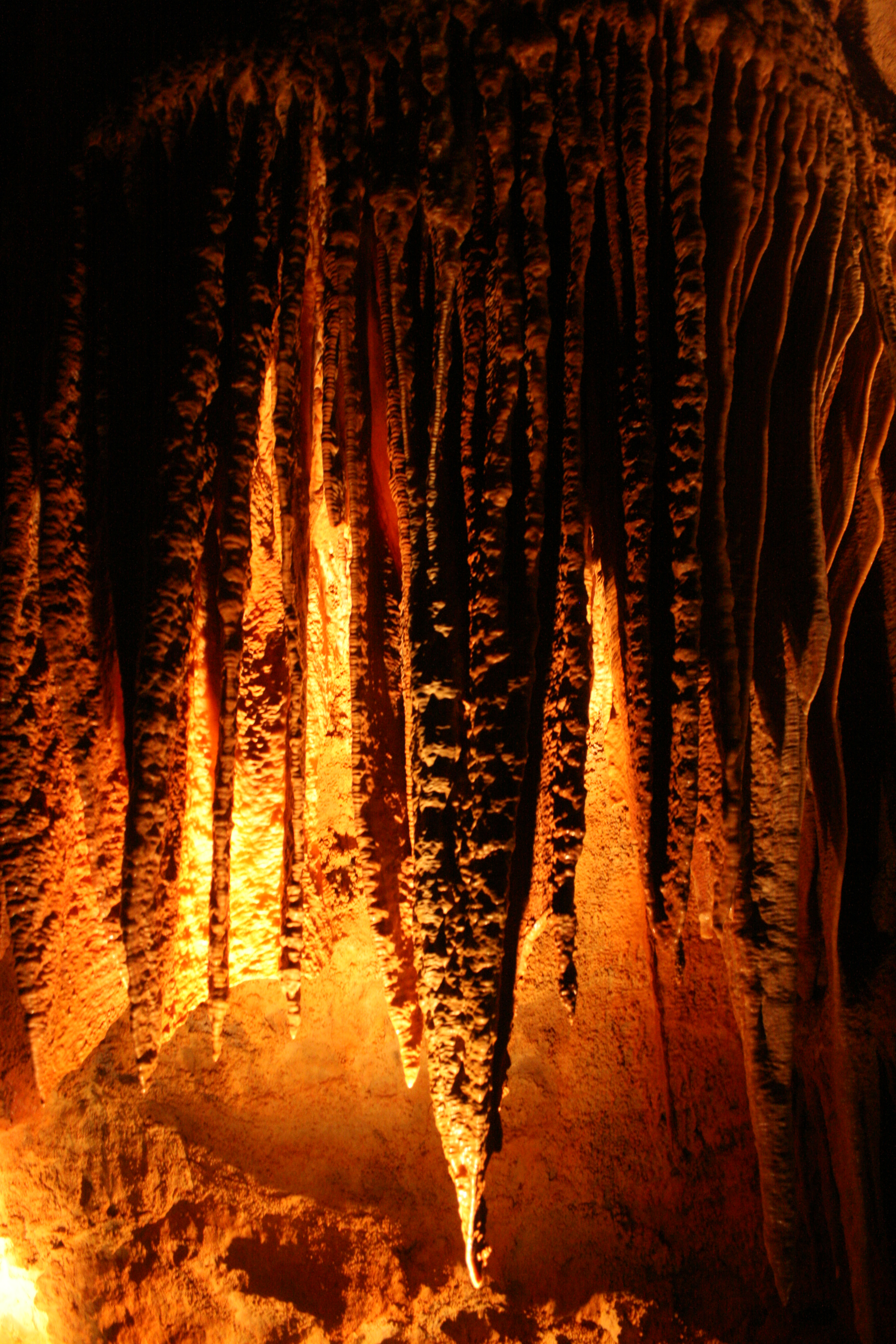 King Solomon's Cave, Tasmania, Australia